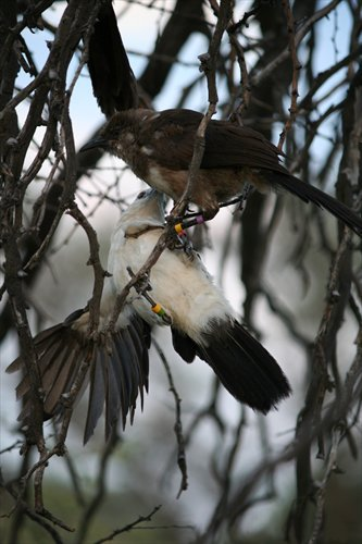 Adult and fledgling Southern Pied Babblers (Turdoides bicolor) playing in a tree.